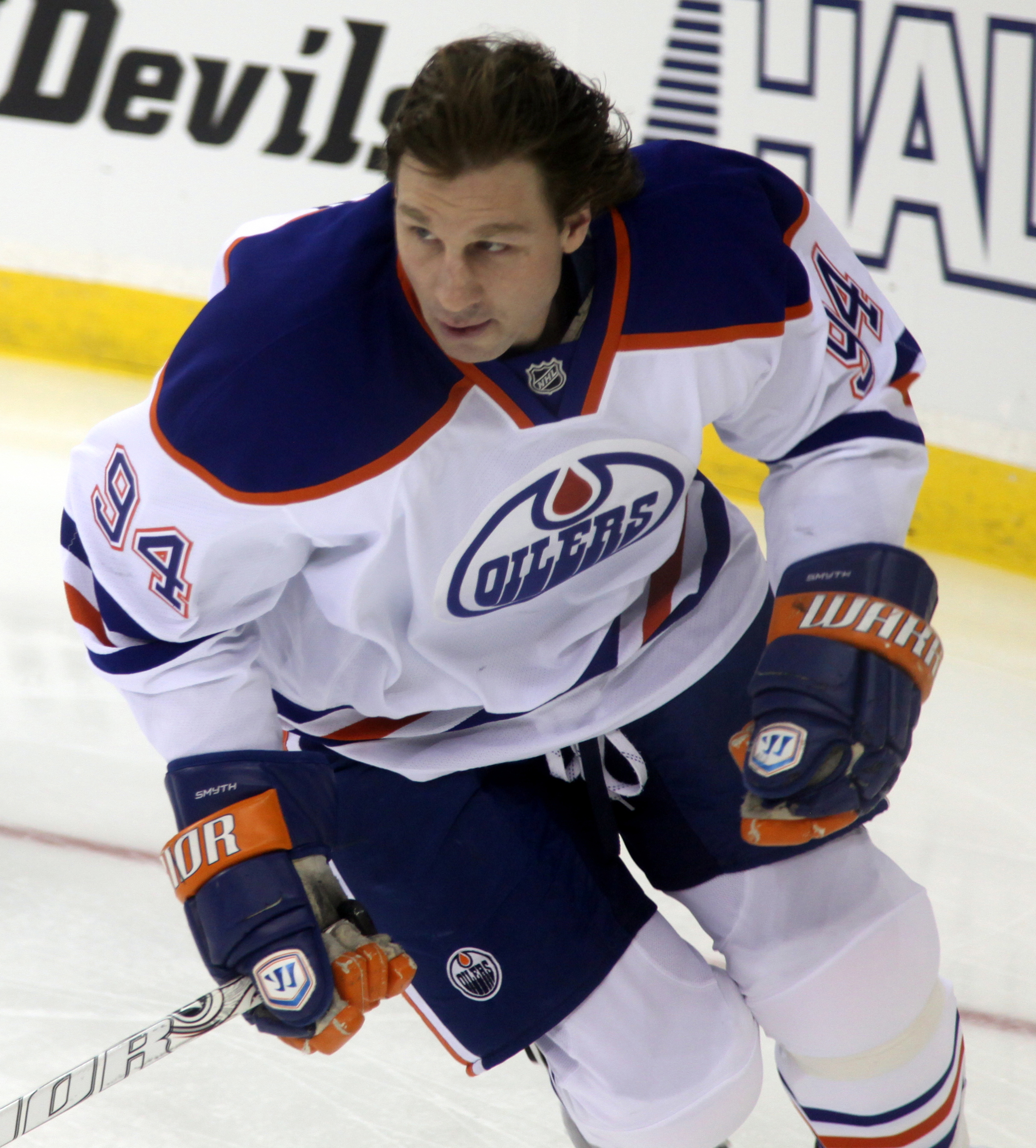 Ryan Smyth of the Edmonton Oilers in a pregame warmup